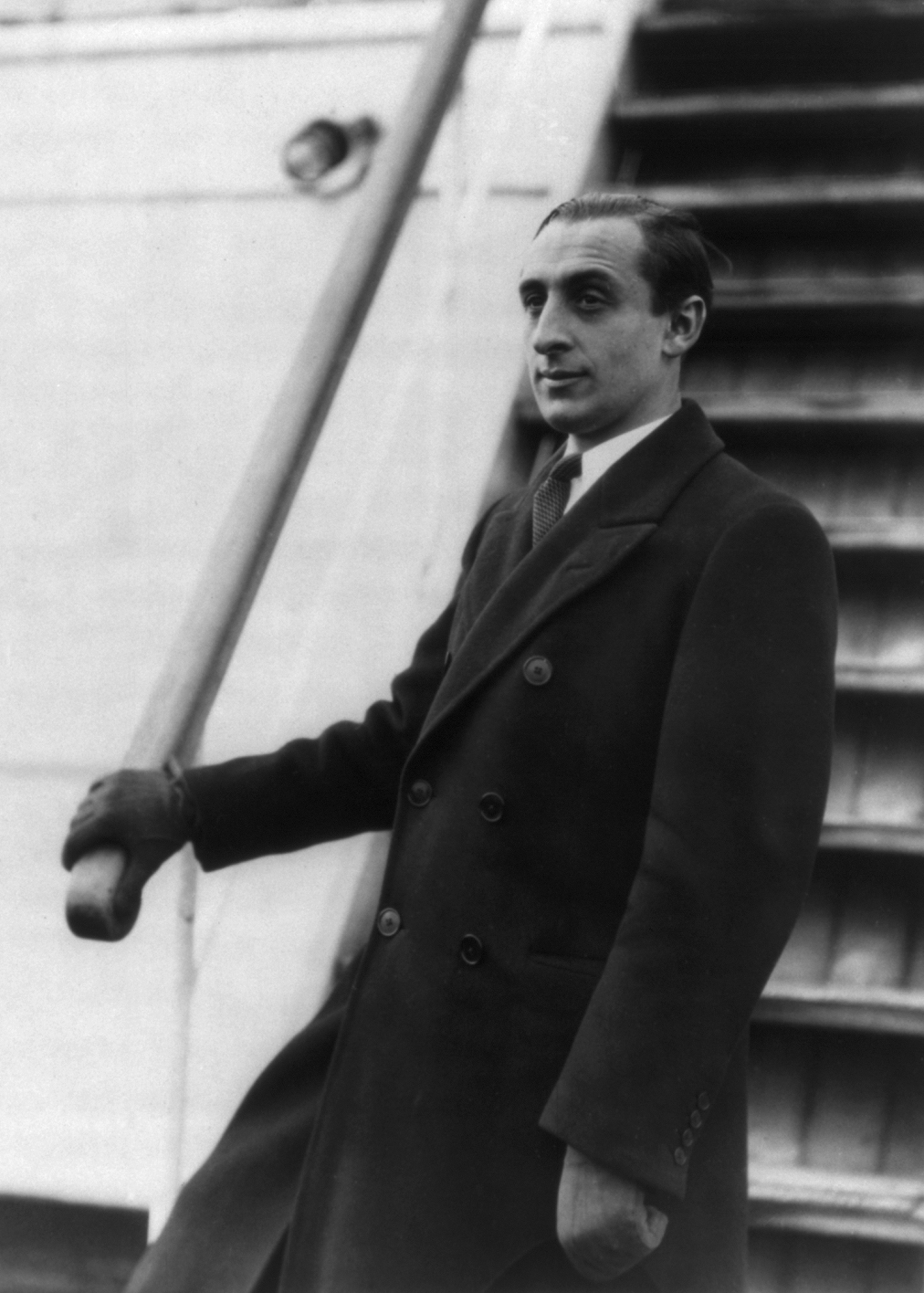 Vladimir Horowitz, half-length portrait, standing by steps, facing left